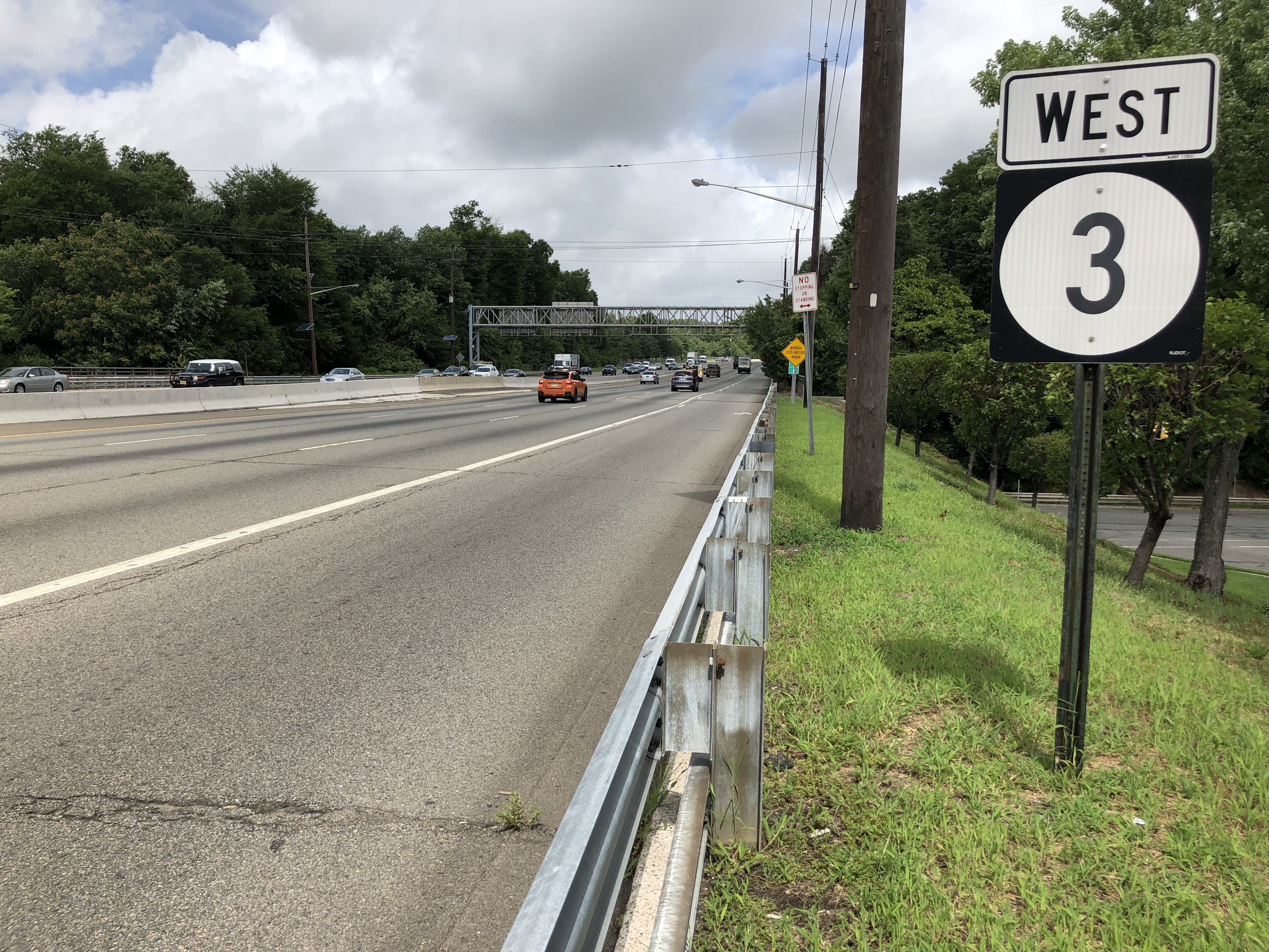 View west along New Jersey State Route 3 (Secaucus Bypass) at Passaic County Route 622 (Bloomfield Avenue) in Clifton, Passaic County, New Jersey